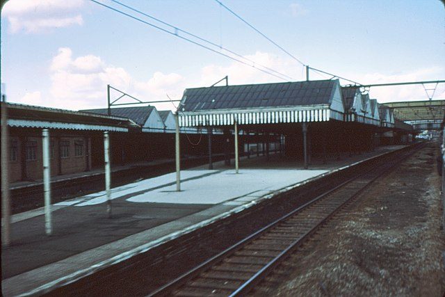 Sheffield Victoria station platforms 1977